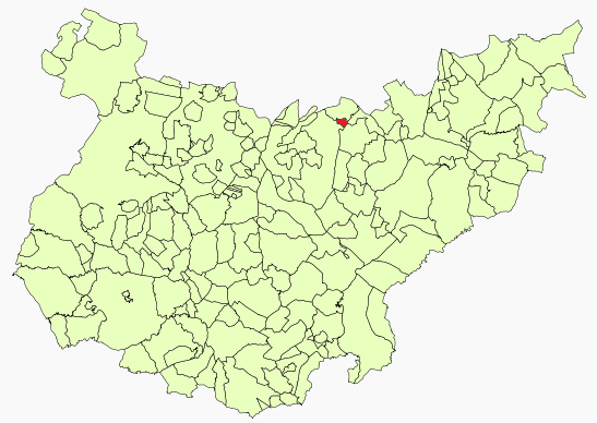 Rena